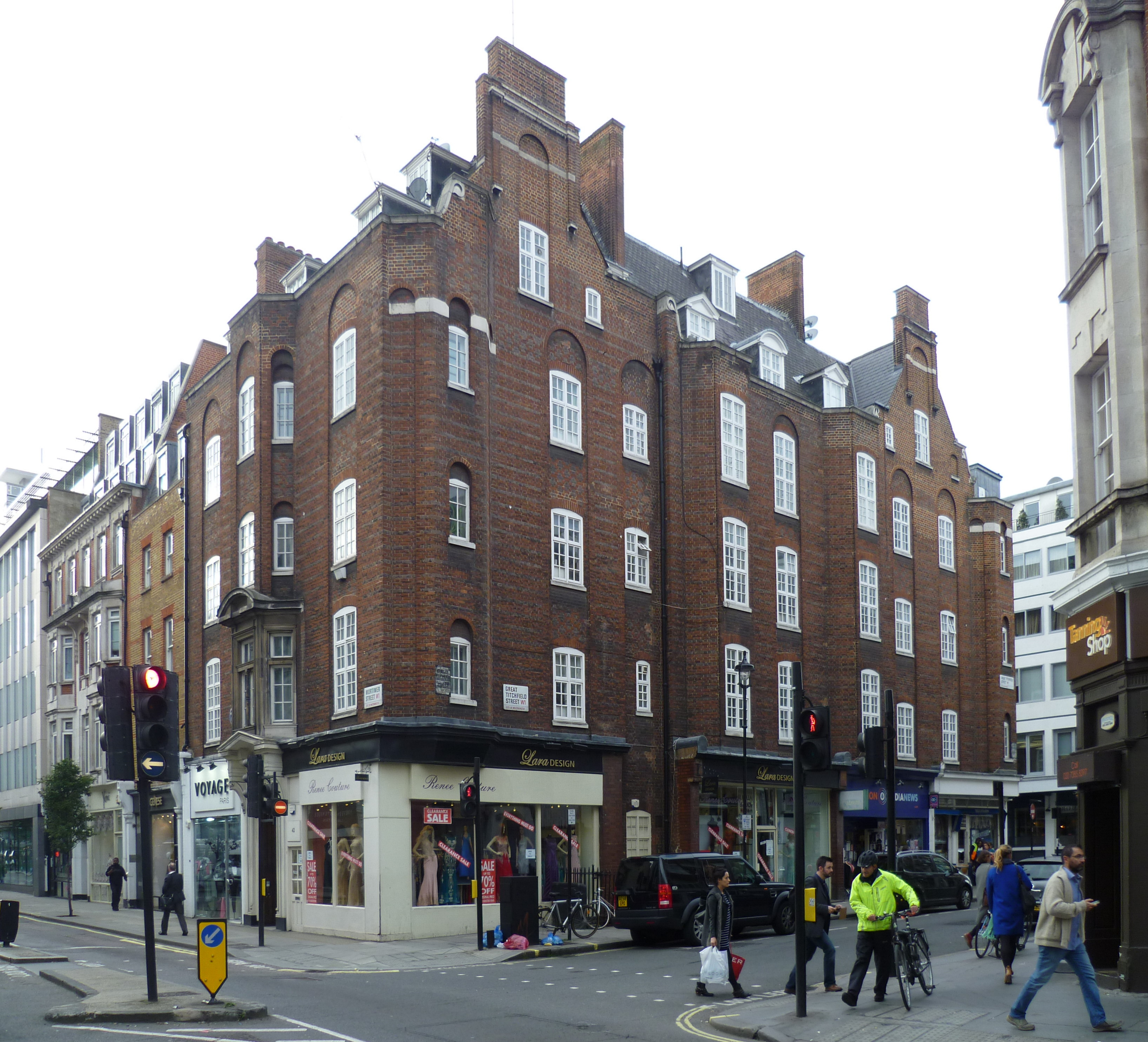 Mortimer Street, Great Titchfield Street, corner